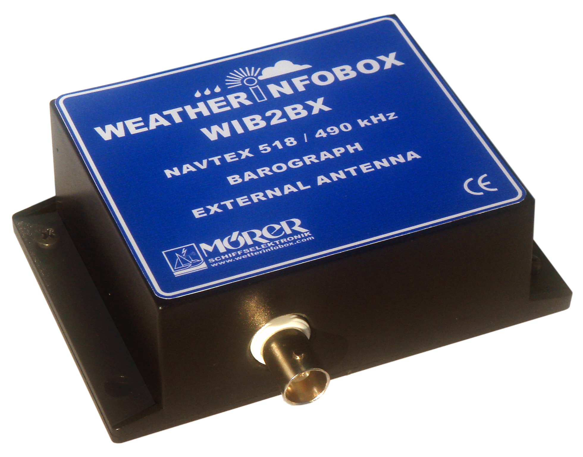 Weatherinfobox 2BX